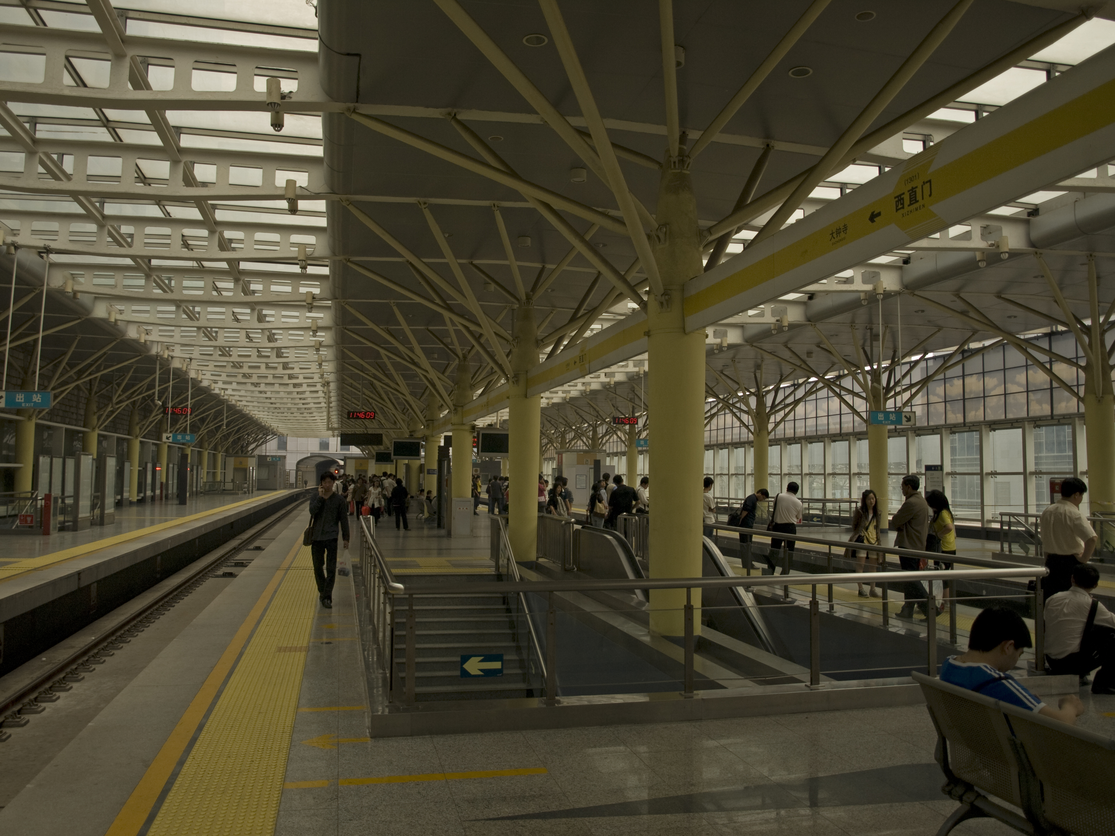 Xizhimen station (line 13), Beijing Subway